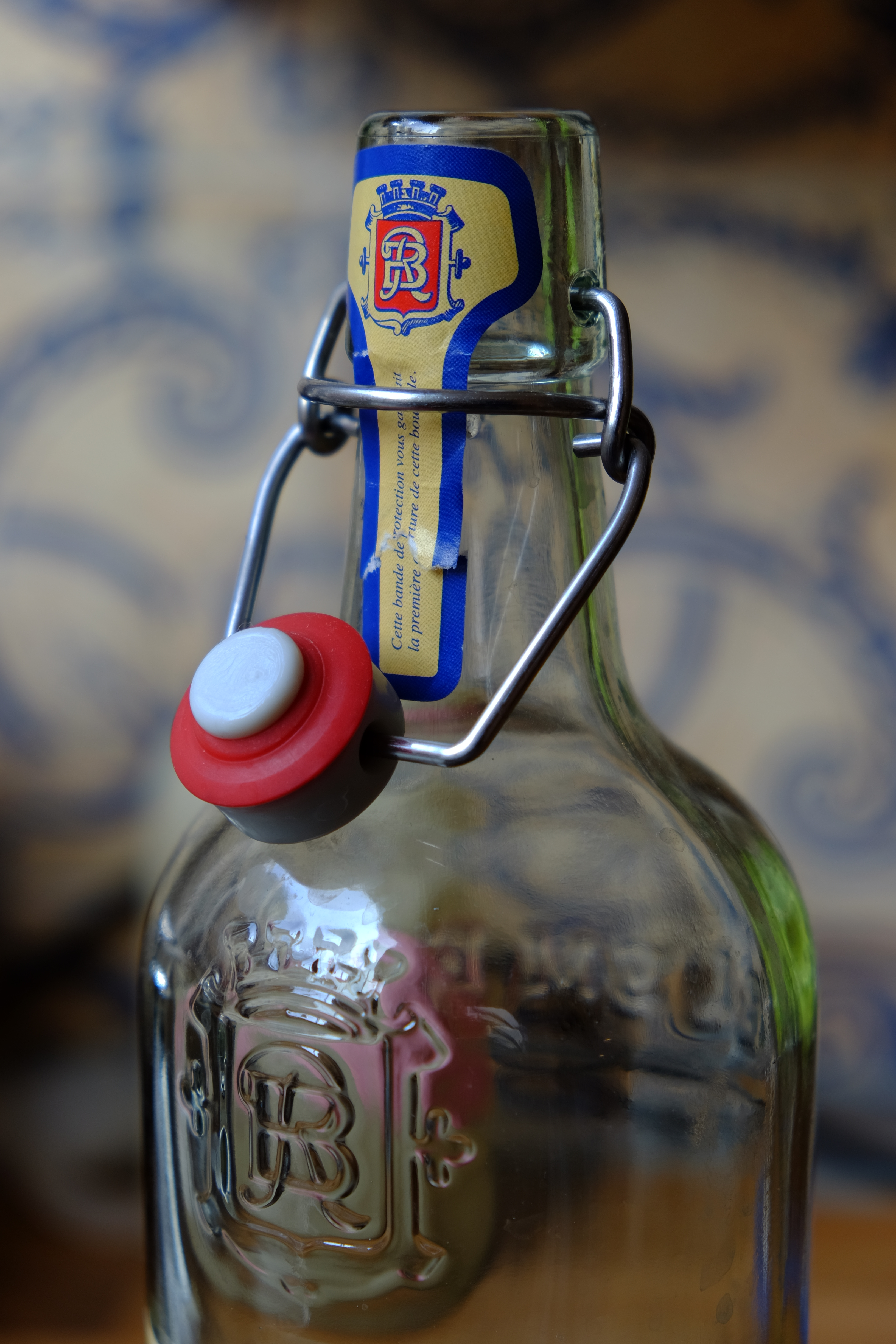 An empty bottle featuring the traditional swing-top cap mechanism (also called flip-top). It contained artisan lemonade La Mortuacienne, produced in Morteau (France).